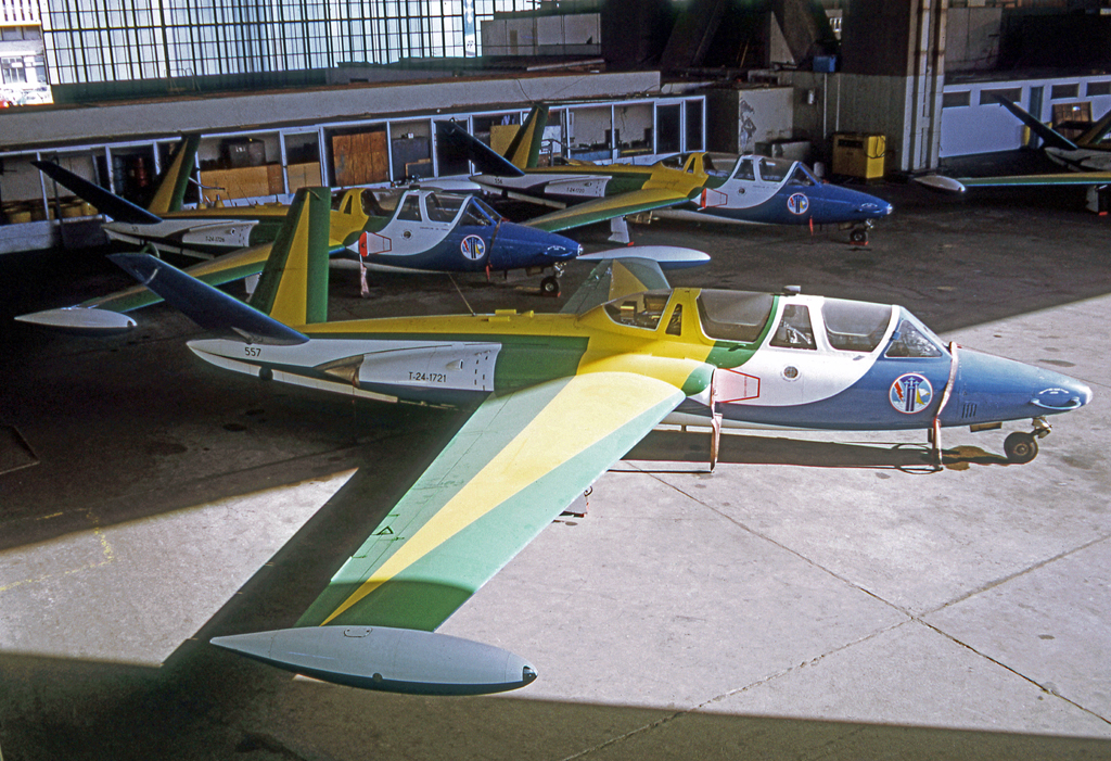 Fouga CM170R Magister T-24 1721 of the Brazilian Air Force's Esquadrilla da Fumaca at Rio Santos Dumont Airport in 1972.